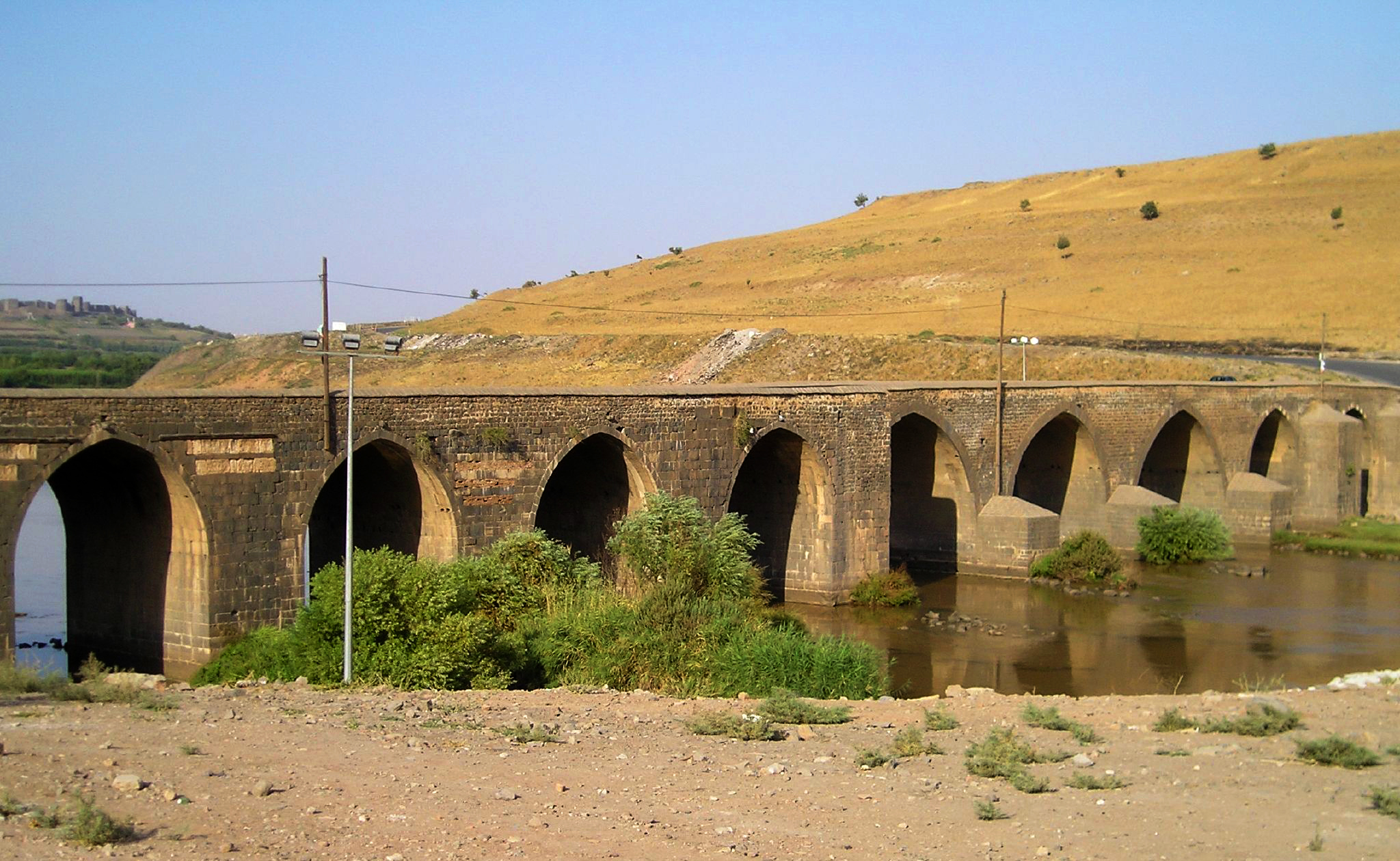 On Gözlü Bridge (or Silvan Bridge) over Tigris. Diyarbakır/Turkey.